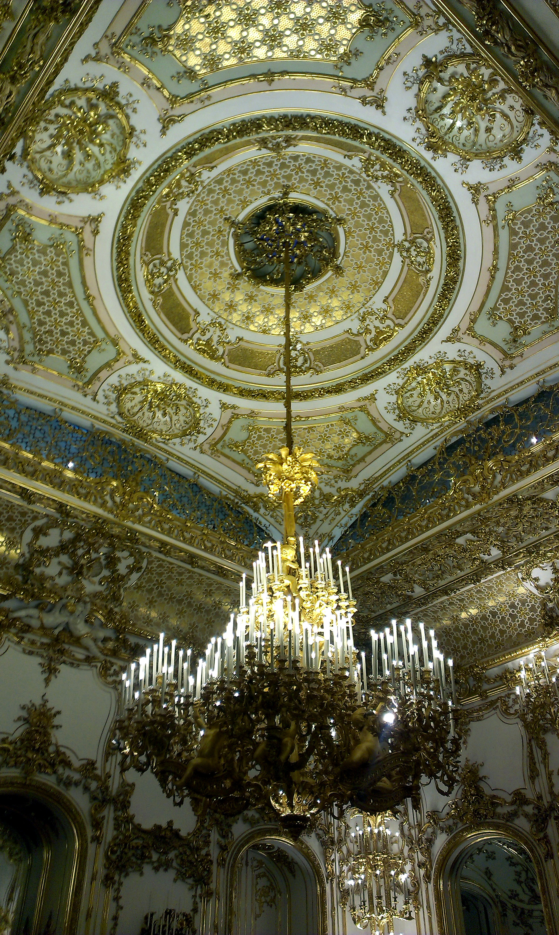 Cieling of the Tanzsaal (ballroom) of the Palais Liechtenstein on the 3rd floor.